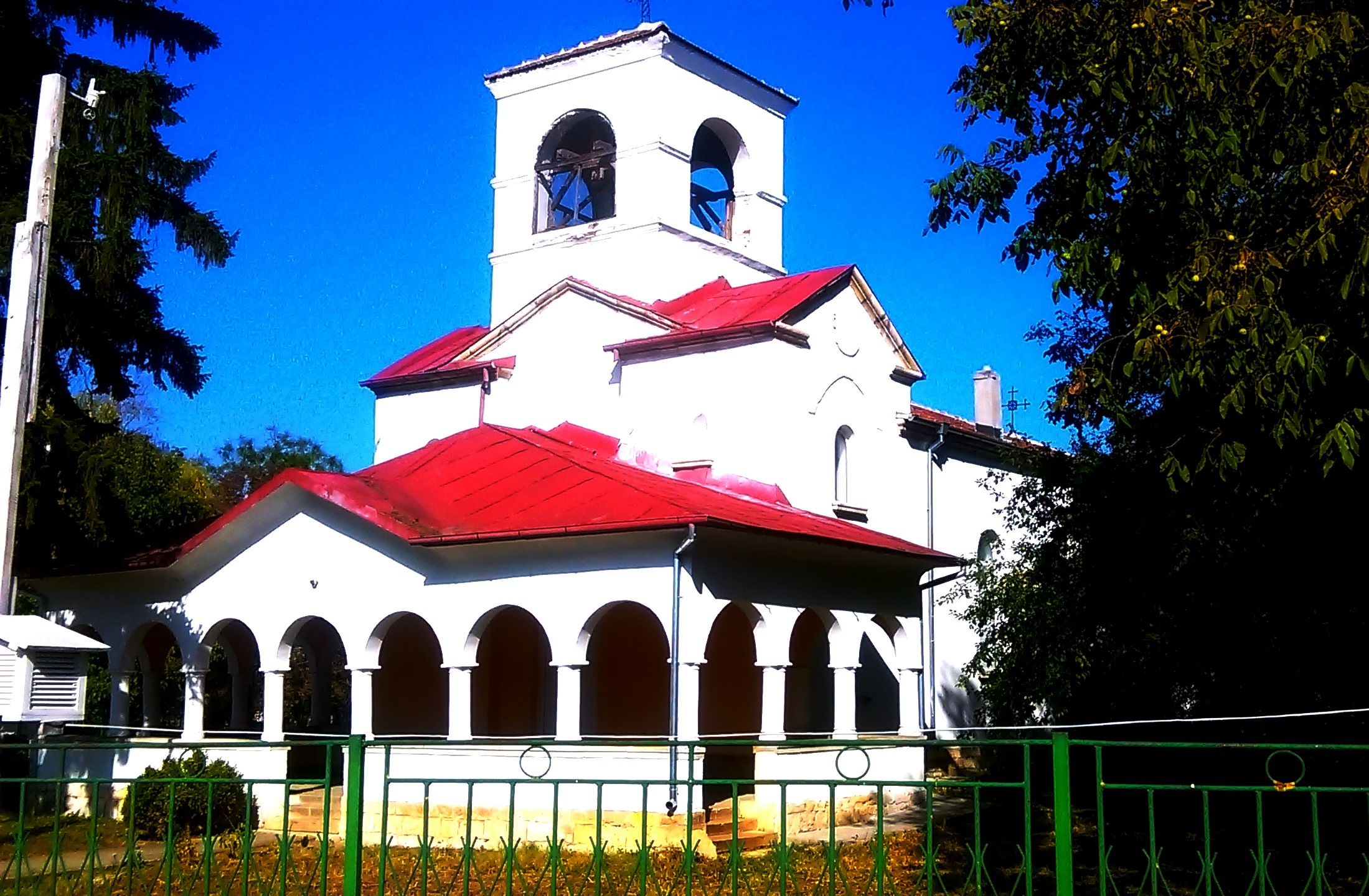 Saint George village church in Topchii, Razgrad province